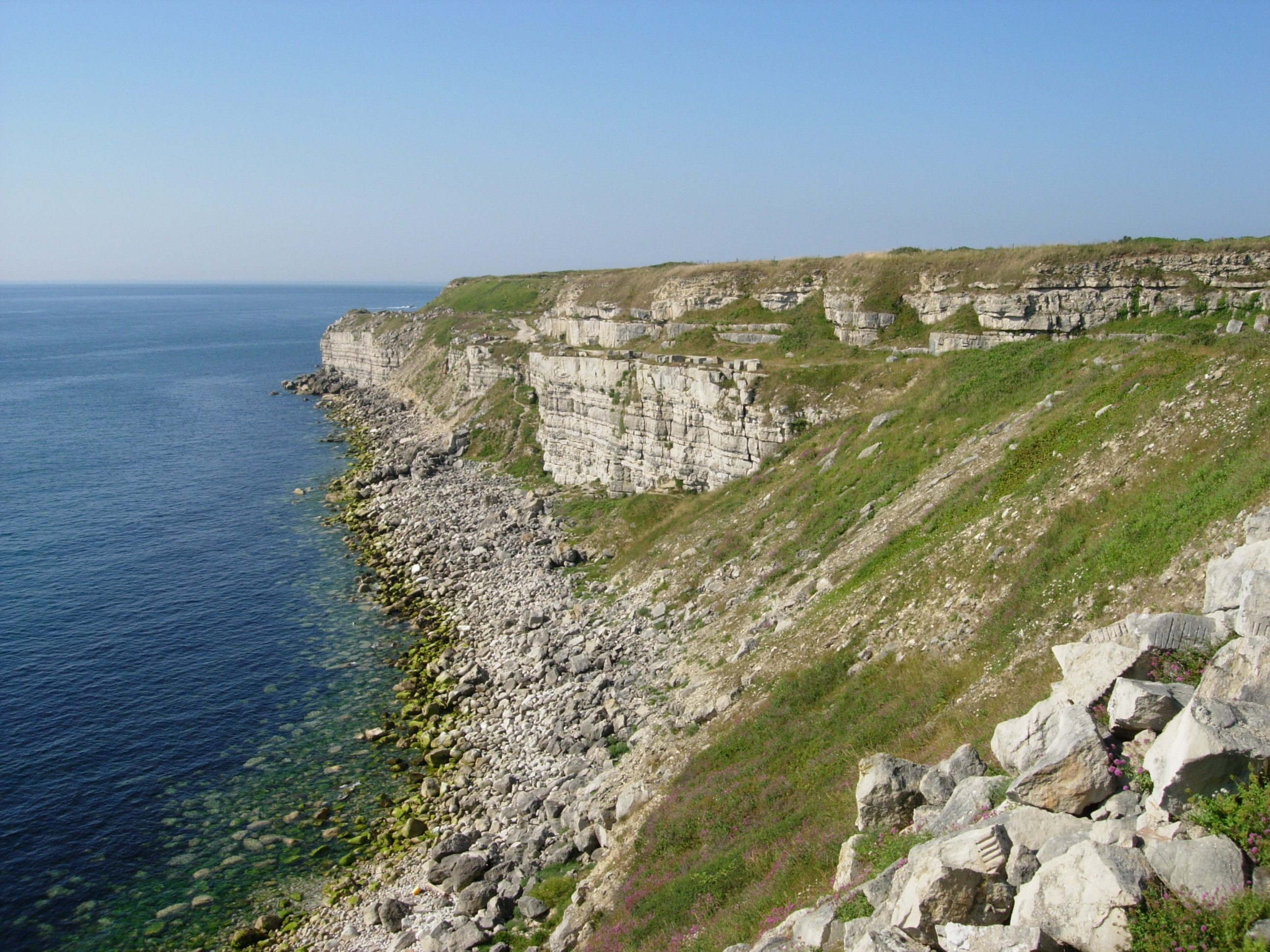 Portland's cliffs and quarries, England.